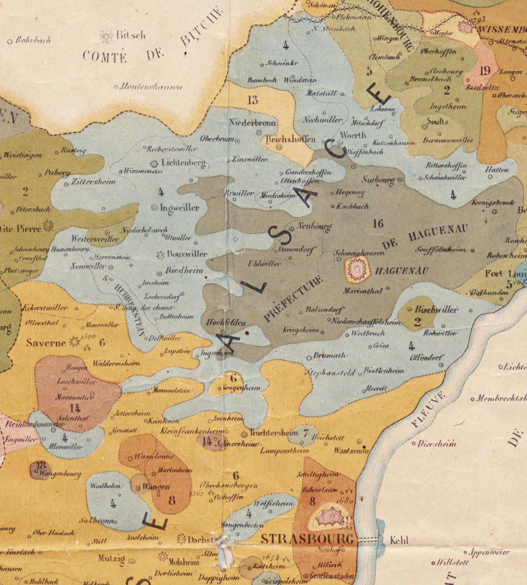 Extent of the Alsatian part of County of Hanau-Lichtenberg (light blue) at the time it was annexed by France in 1680. It was non-contiguous, with exclaves to the south of the main part.